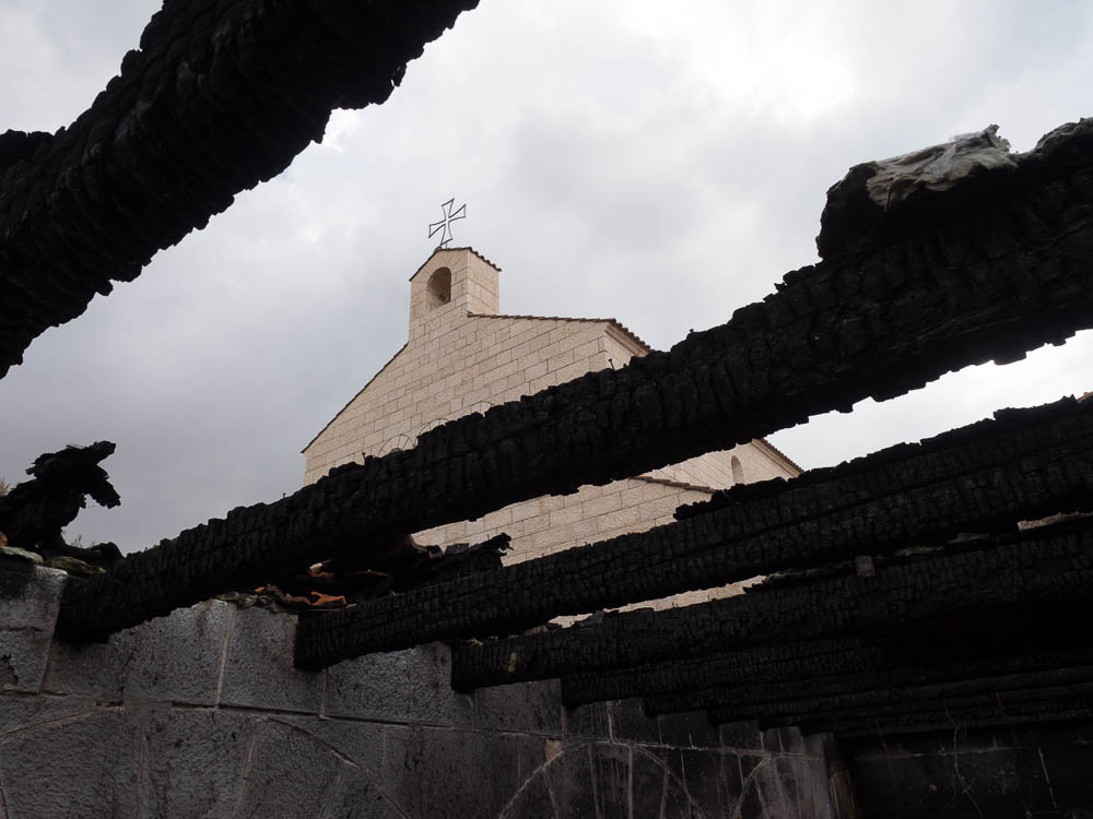 The Church of the Multiplication as seen through the burnt roof of an auxiliary building next to the church. The perpetrators of this arson attack - Jewish extremists - have been arrested and sentenced by Israeli court.